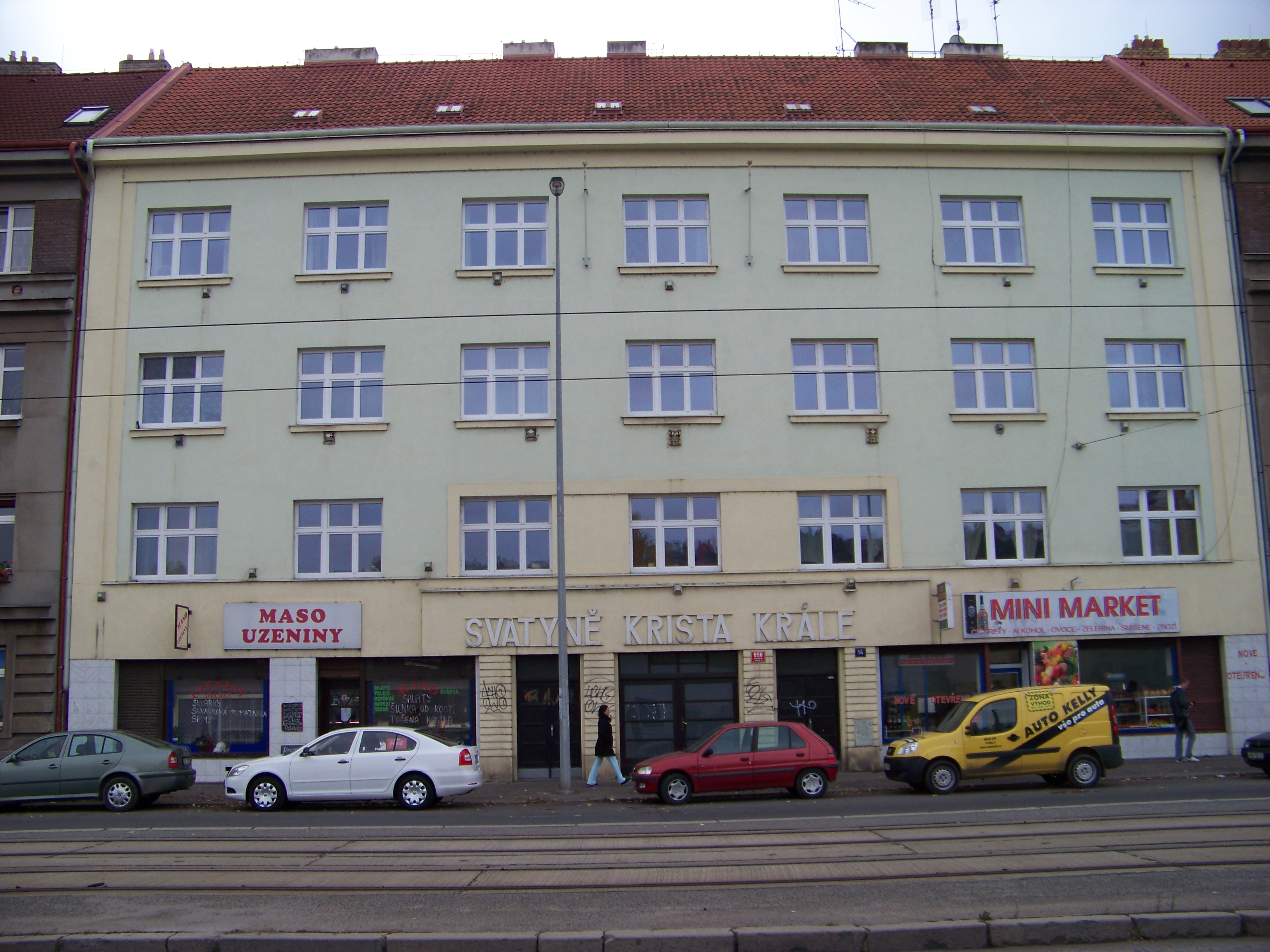 Prague-Vysočany, the Czech Republic. Kolbenova 658/14, entry of the Sanctuary of the Christ the King.